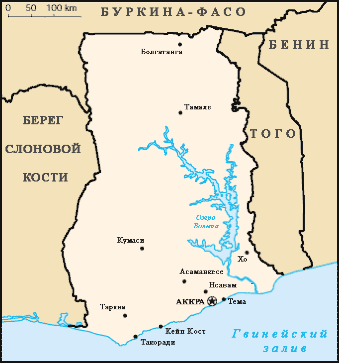 Map of Ghana (russian)